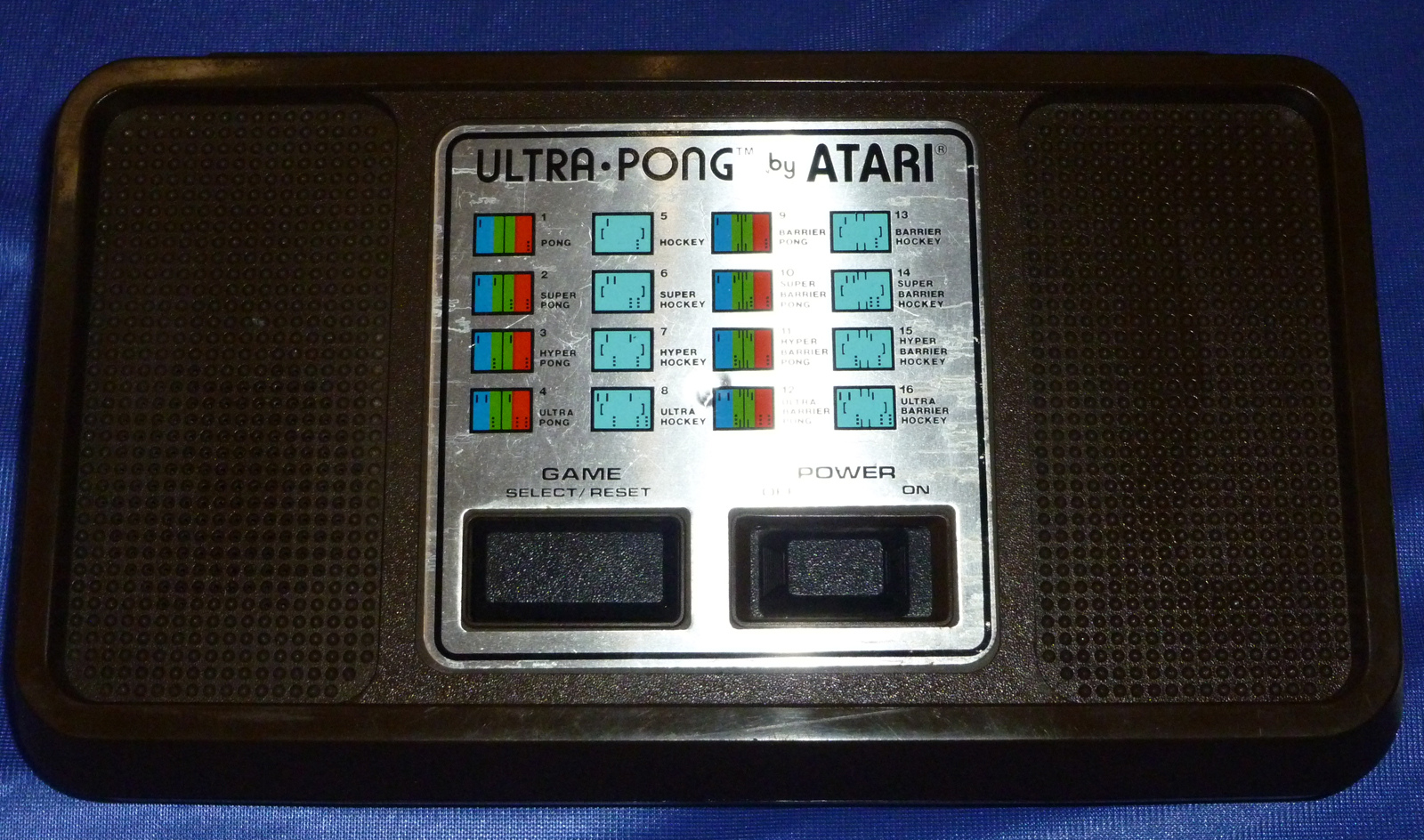 Console Ultra Pong Doubles produced by Atari in 1977. It's buildt around the C010765 chip (pong-on-a-chip)